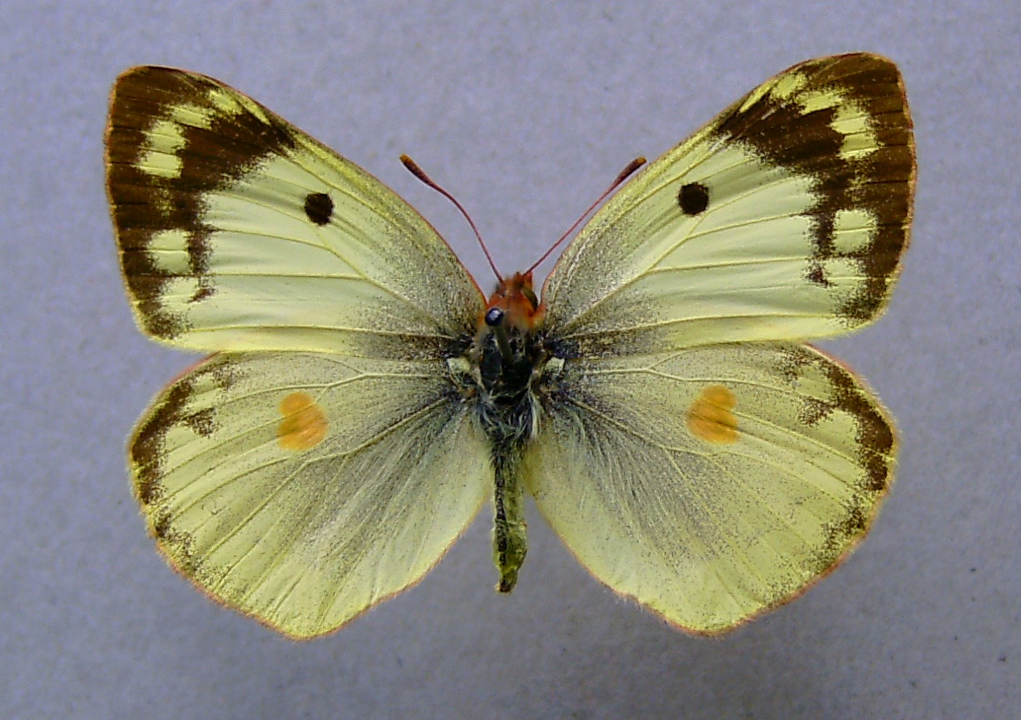 Colias hyale female